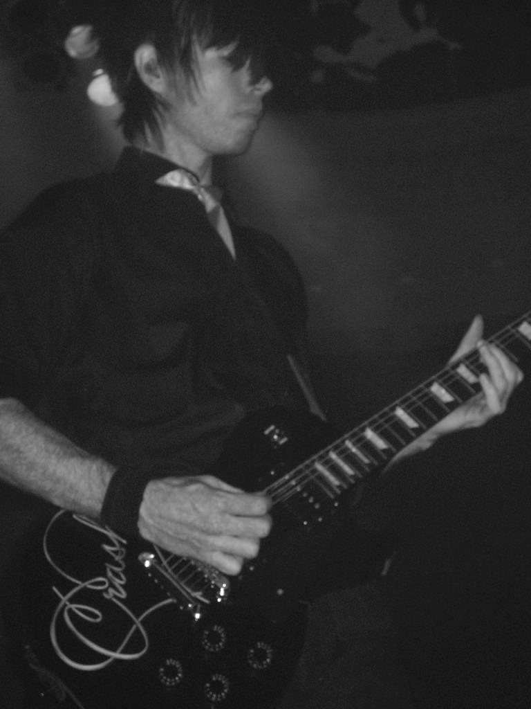 Jade Puget performs in Columbus, Ohio on October 4th, 2009